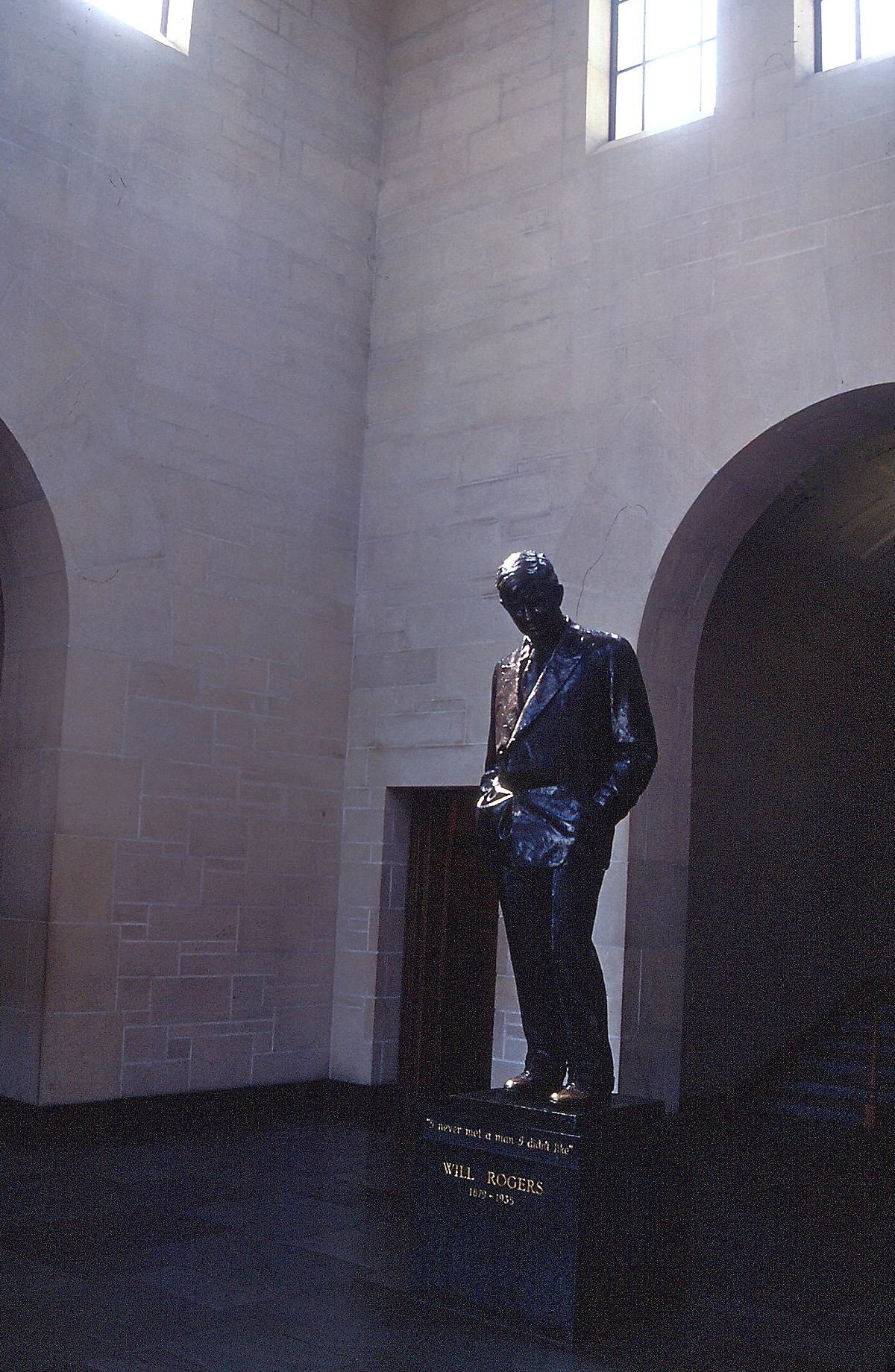 Will Rogers Memorial, Claymore, OK, USA, statue by Jo Davidson